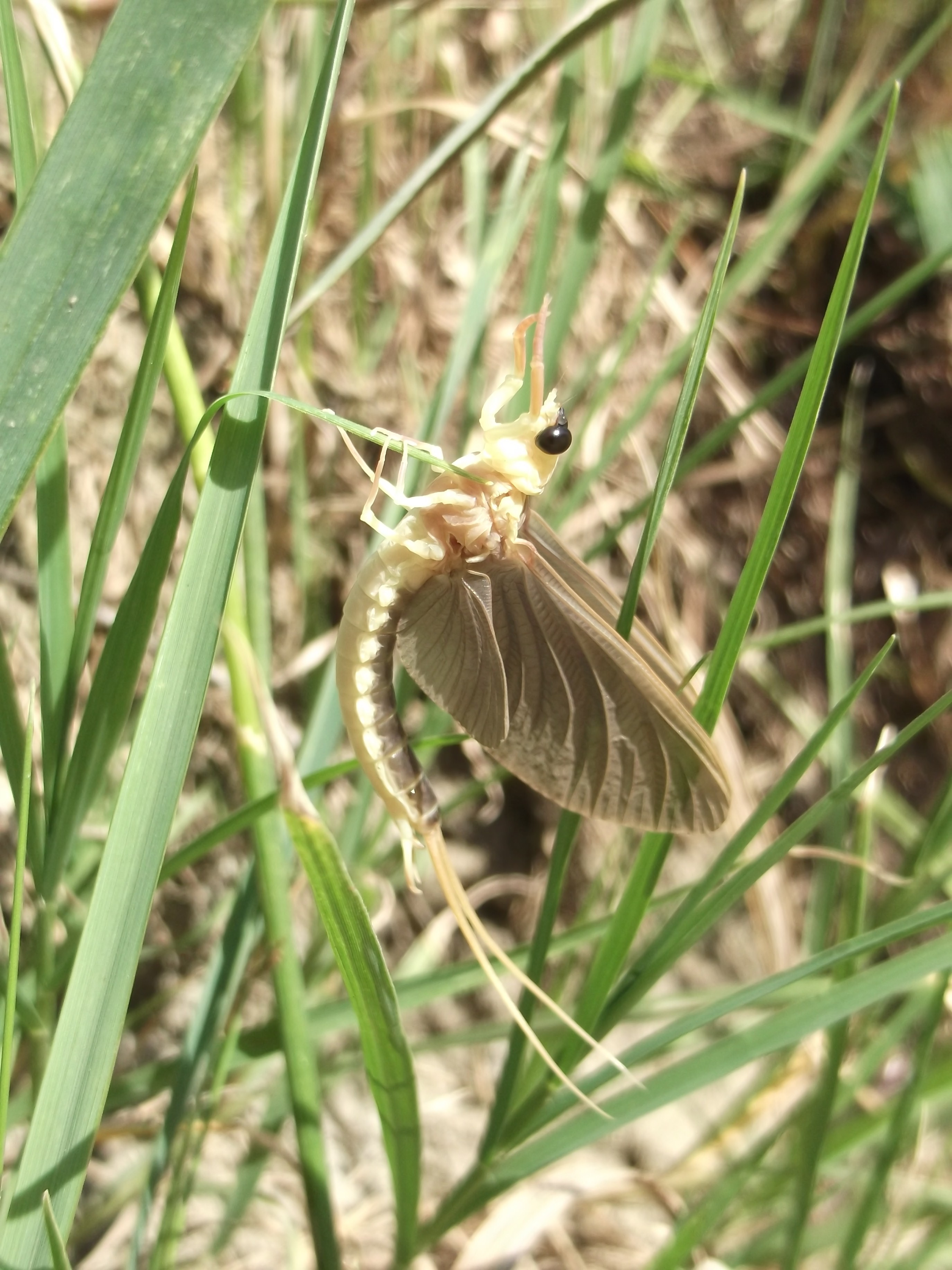 Palingenia longicauda The Giant Mayfly male